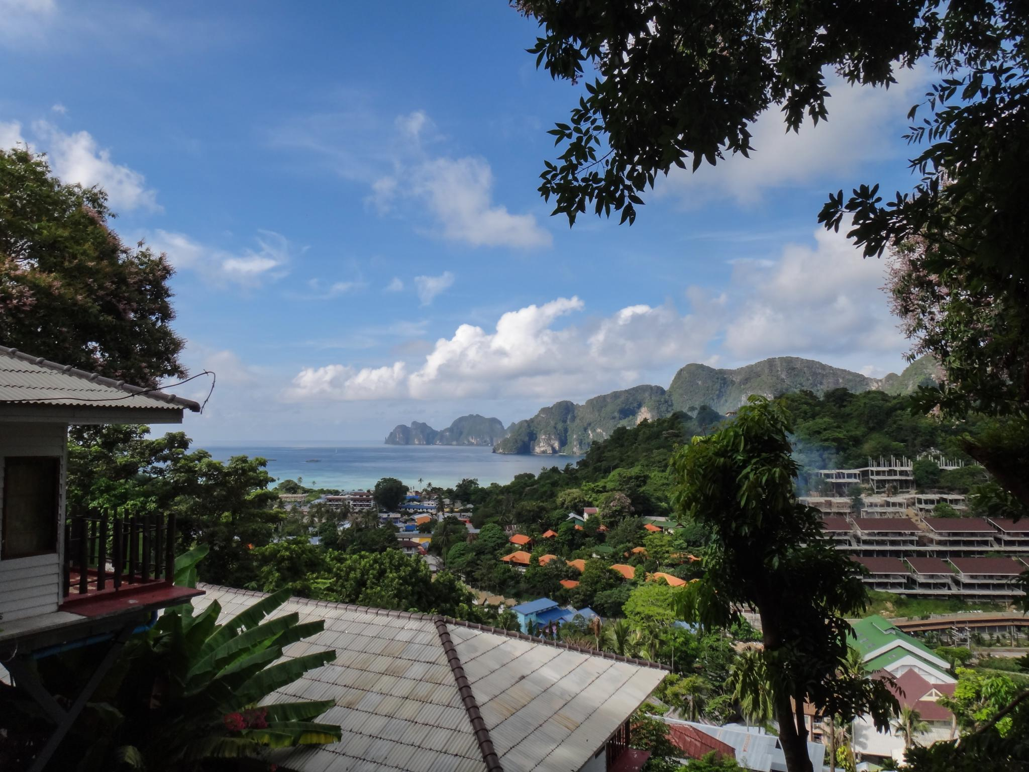 Phuket 2012